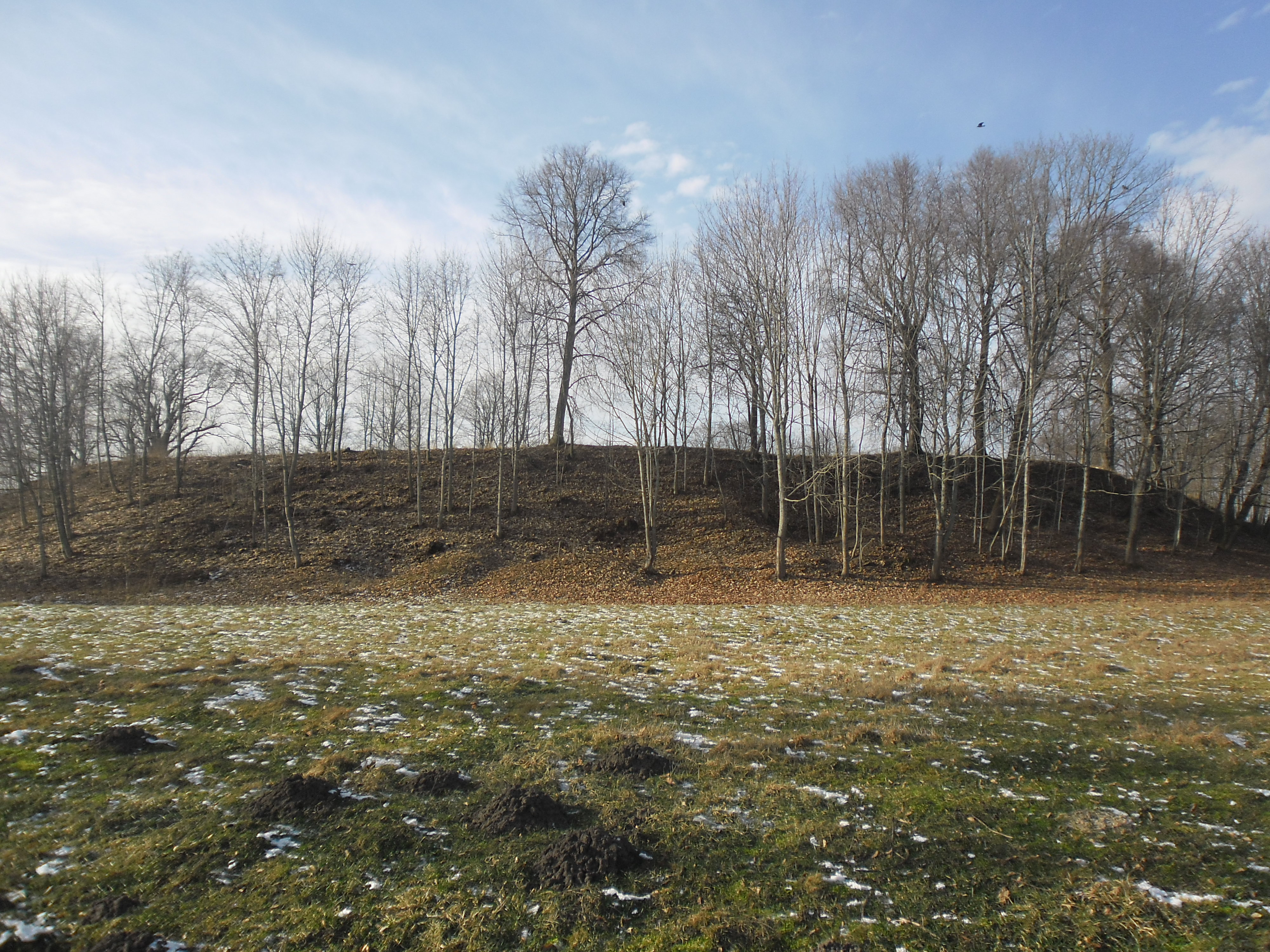 Castle Hill in Jersika, Latvia